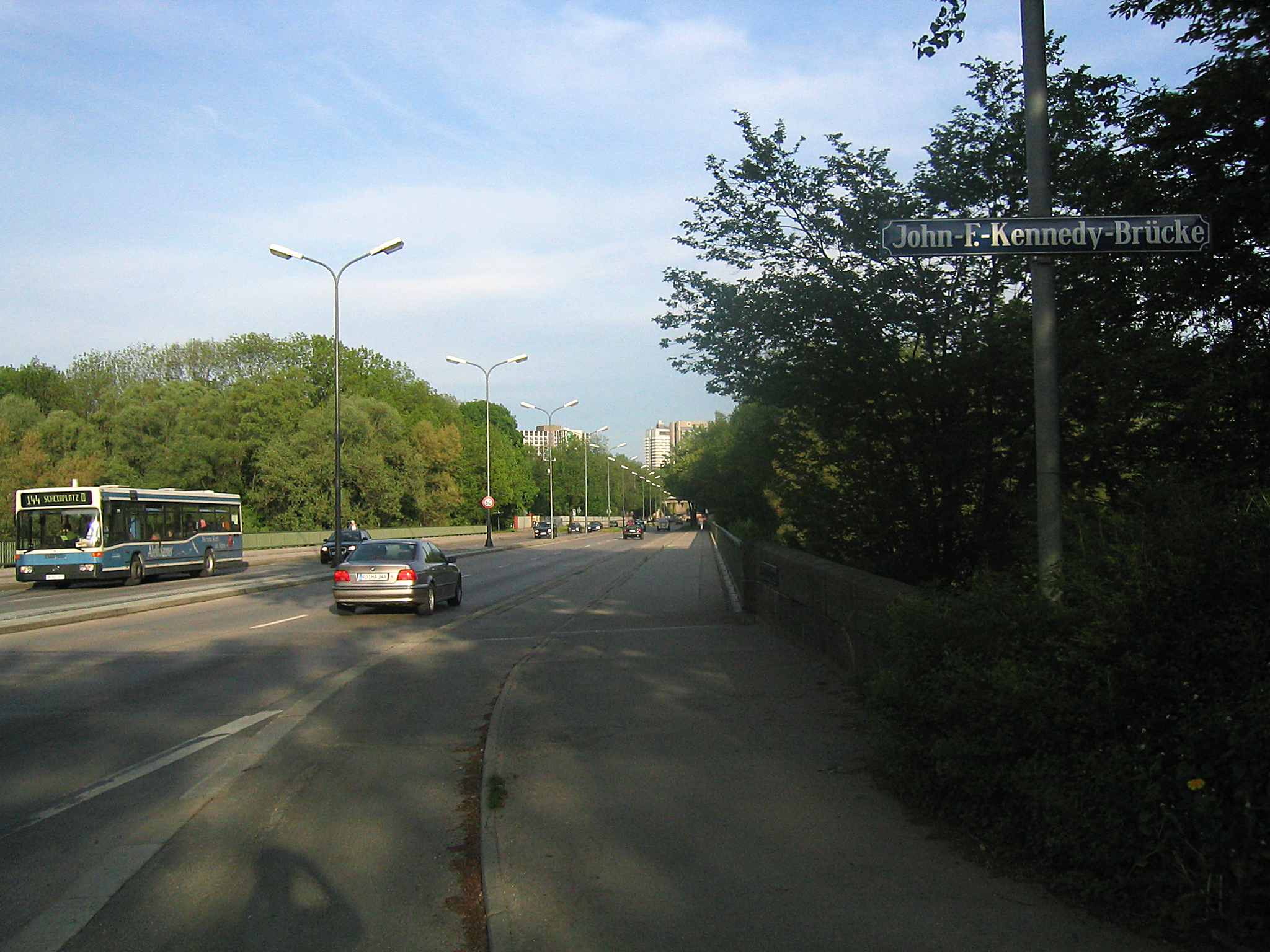 The John-F.-Kennedy-Brücke bridge in Munich which spans the Isar river.